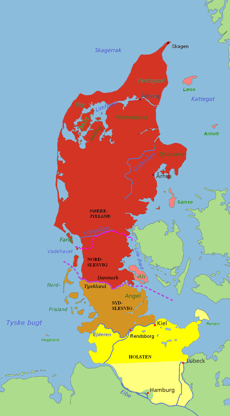 Jutland and the Jutland PeninsulaRed: Commonly defined as Jutland today, including the area north of the Limfjord and minor islandsPink: The islands of Læsø, Anholt, Samsø and Als are usually attributed to Jutland as wellBrown: South Slesvig/Schleswig in the German state of Schleswig-Holstein, historically a part of JutlandYellow: Holstein, situated on the Jutland Peninsula, but not in Jutland itself.The river Kongeå is the historical border between Northern and Southern Jutland (Slesvig). The river Eider is the historical southern border of Jutland (and formerly Denmark), and between Slesvig and Holstein. The city of Rendsburg and the island of Helgoland are sometimes regarded as Slesvig, sometimes not. The Jutland Peninsula as a geographic term has no fixed southern border, but at its furthest it would stretch to the river Elbe. Hamburg, however, is not a part of Holstein, and Lübeck was not a part of Holstein until the 20th century. The Jutland Peninsula may also be called the Cimbrian Peninsula, Jutland-Holstein or Jutland-Schleswig-Holstein.